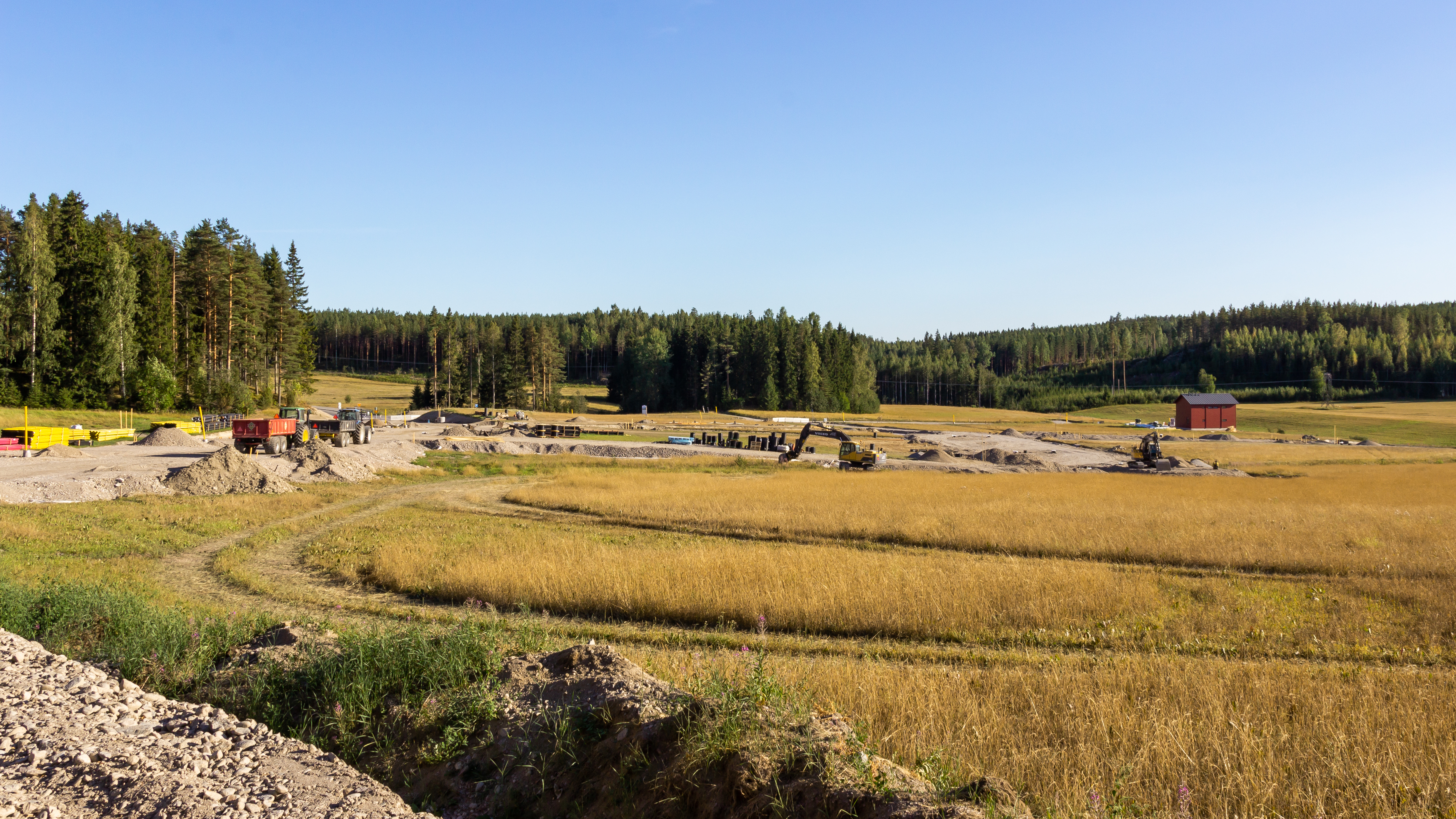 First infrastructure works of the new Henna neighborhood in Orimattila, Finland have started from Länsirinne zoning area.